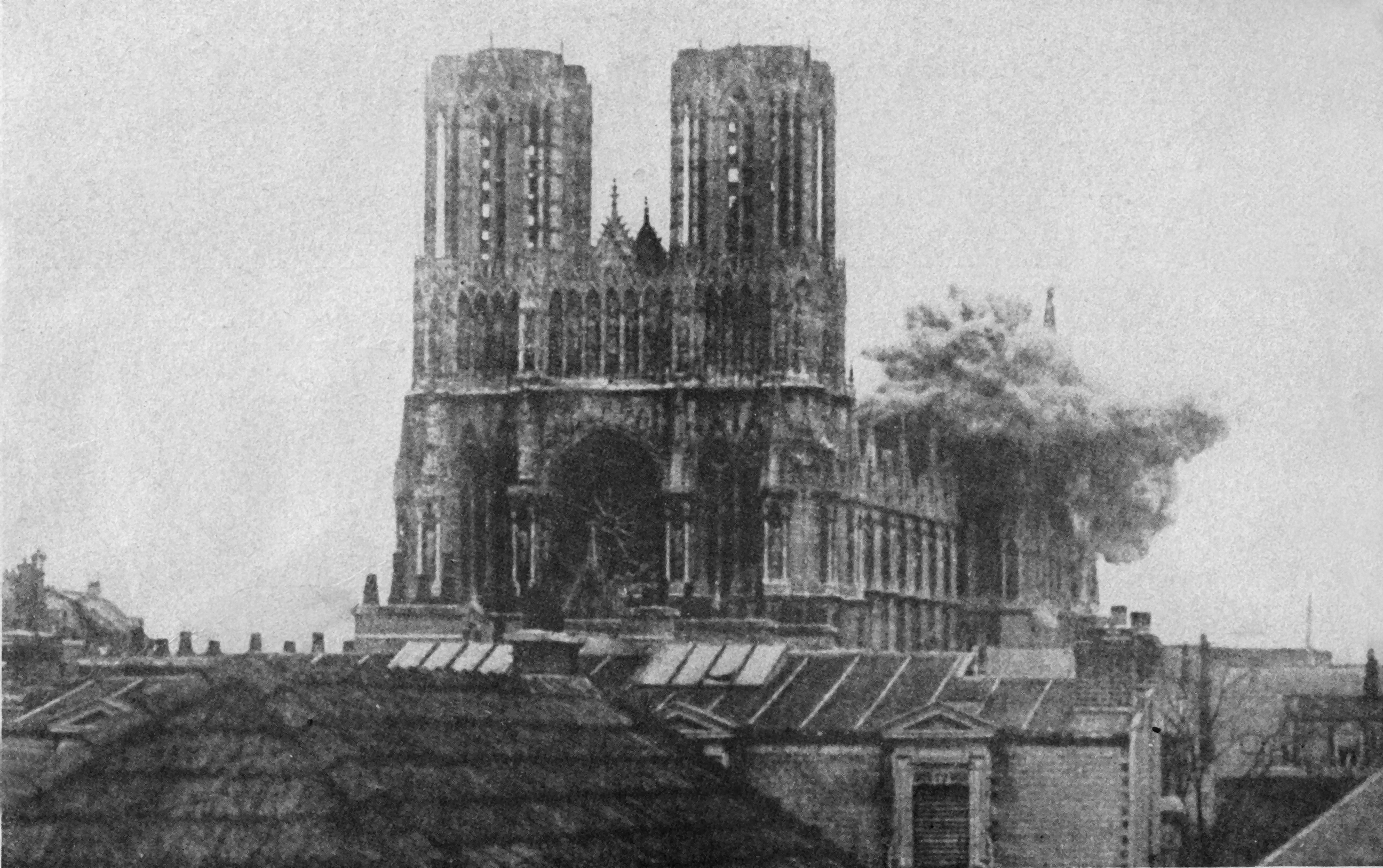 "The Cathedral of Notre Dame at Rheims was one of the most beautiful buildings in the world. The framework was still standing when the Germans began their drive in 1918. In this instance shells burst on the cathedral before the eyes of many spectators." (caption)